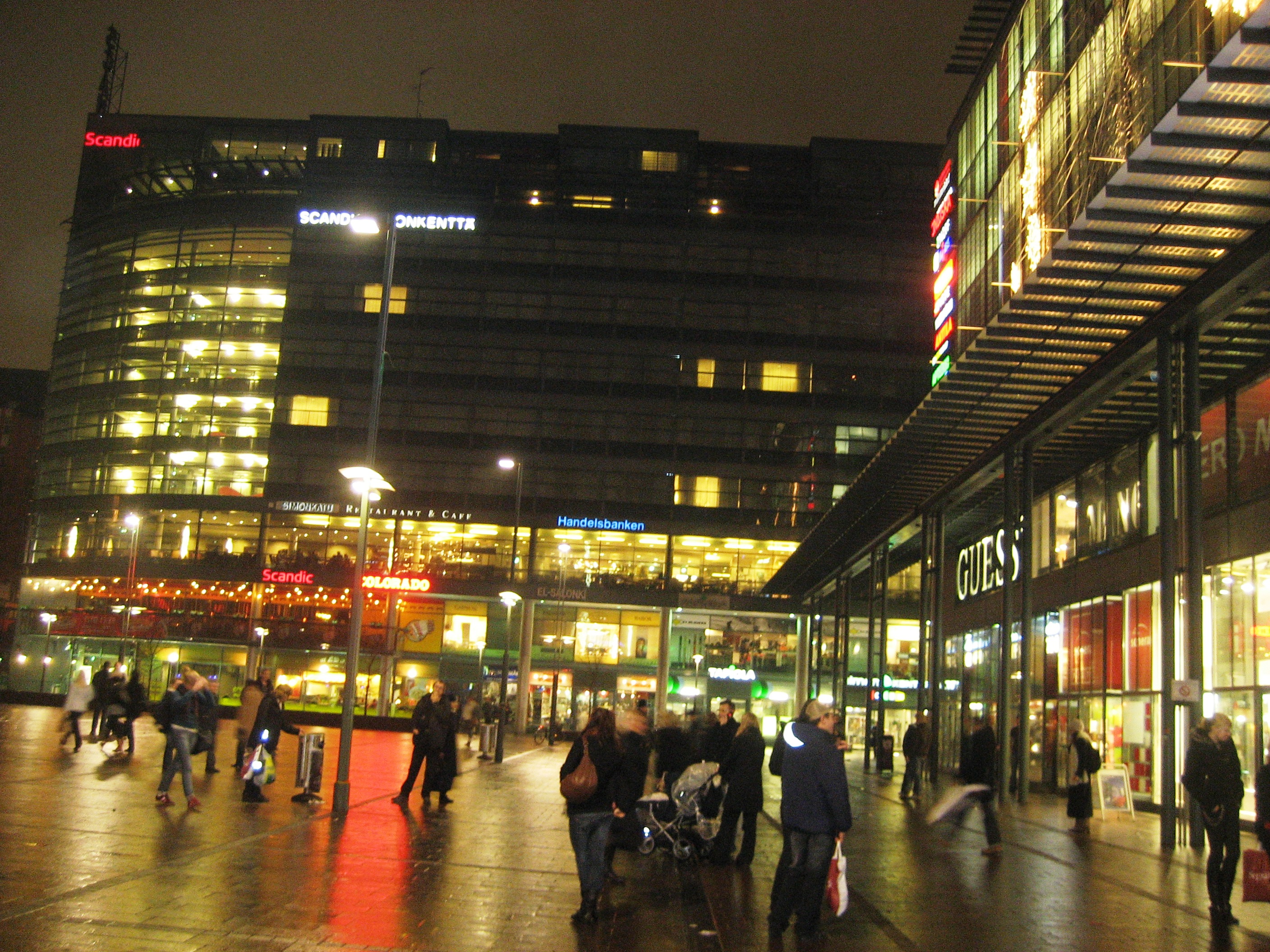 Evening view of Helsinki City. People busy on shopping